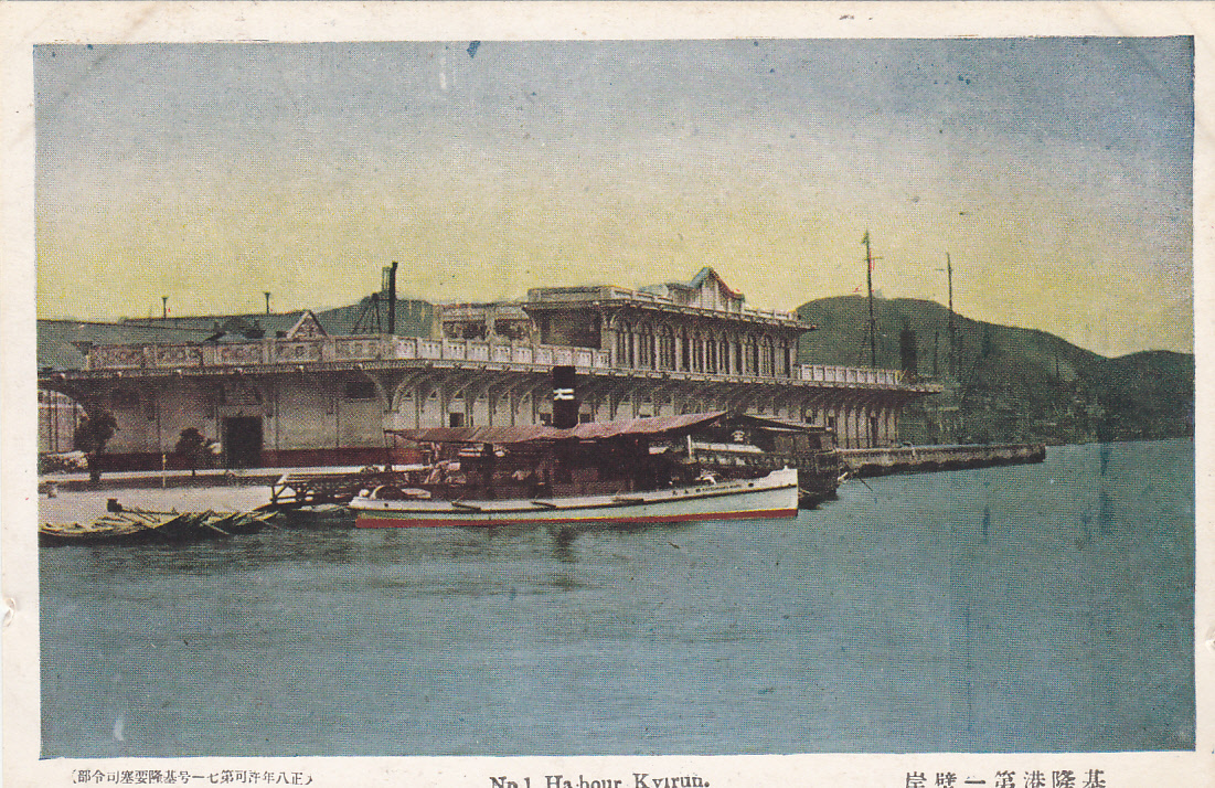 photo of kiirun(Keelung) Harbor on postcard